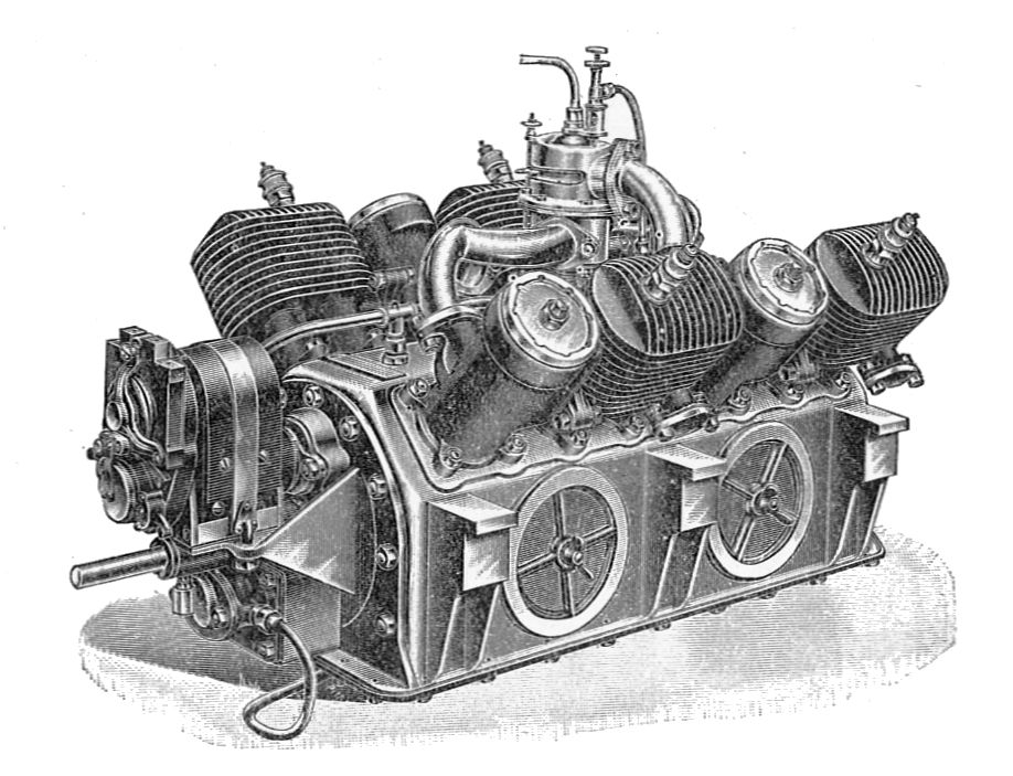 Lamplough's two-stroke engine (Rankin Kennedy, Modern Engines, Vol V).jpg